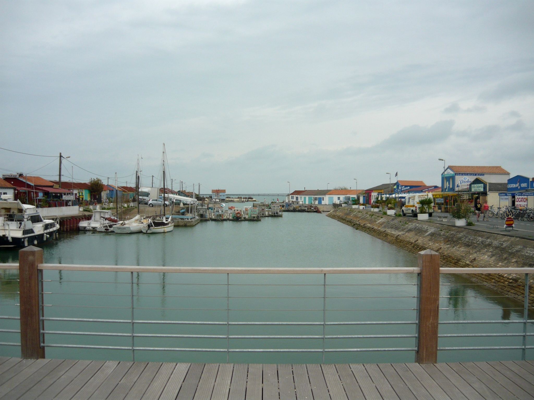 Saint-Trojan-les-Bains port. The Oléron bridge is can be seen in the background.